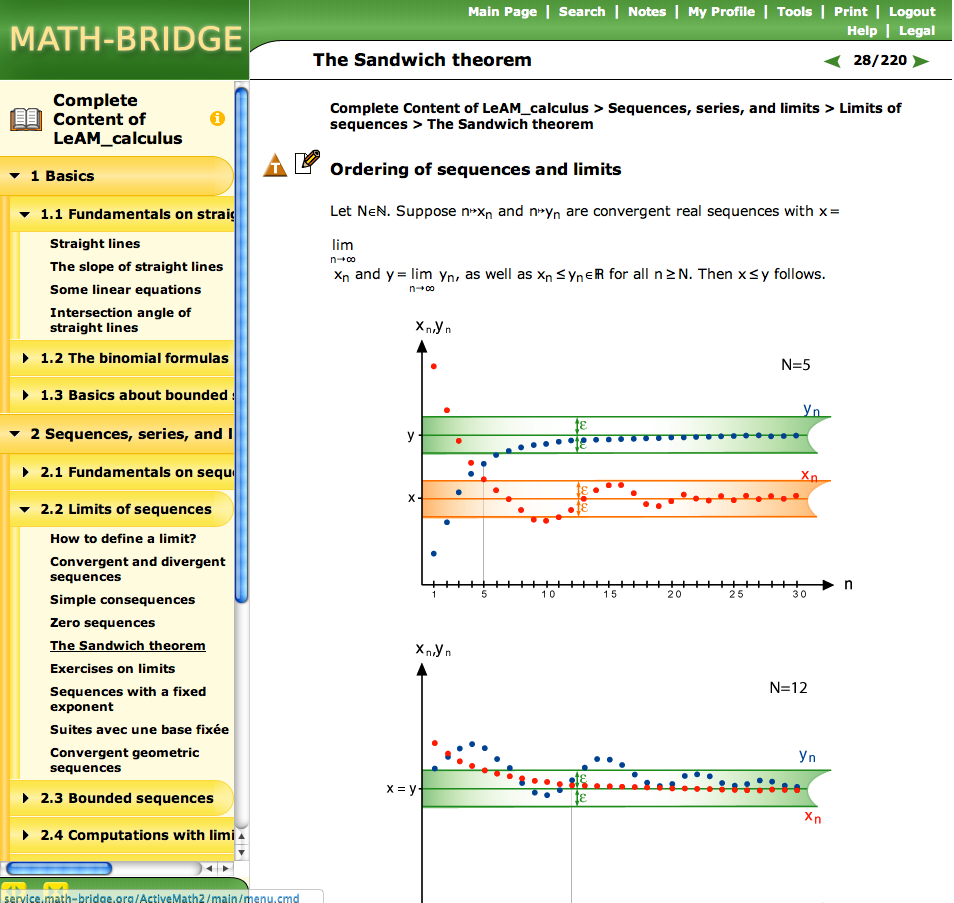 A screenshot of a book in Math-Bridge. The table of contents on the left, the actual content on the right.